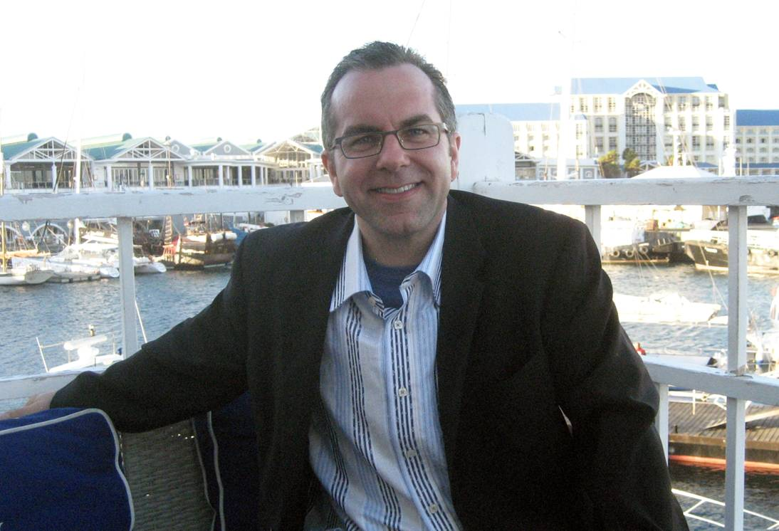 Skip Prichard (OCLC) in Cape Town (South Africa). Prichard was formerly CEO with Ingram and ProQuest